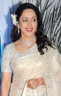 Dharmendra, Hema Malini at Esha Deol's wedding reception